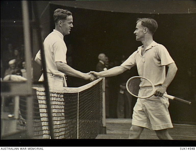 Captain A. Henderson, US Army Air Force (left), congratulates Flight Sergeant O. W. Sidwell, RAAF, on winning the singles match in the 1945 Interservice tennis match at Wimbledon